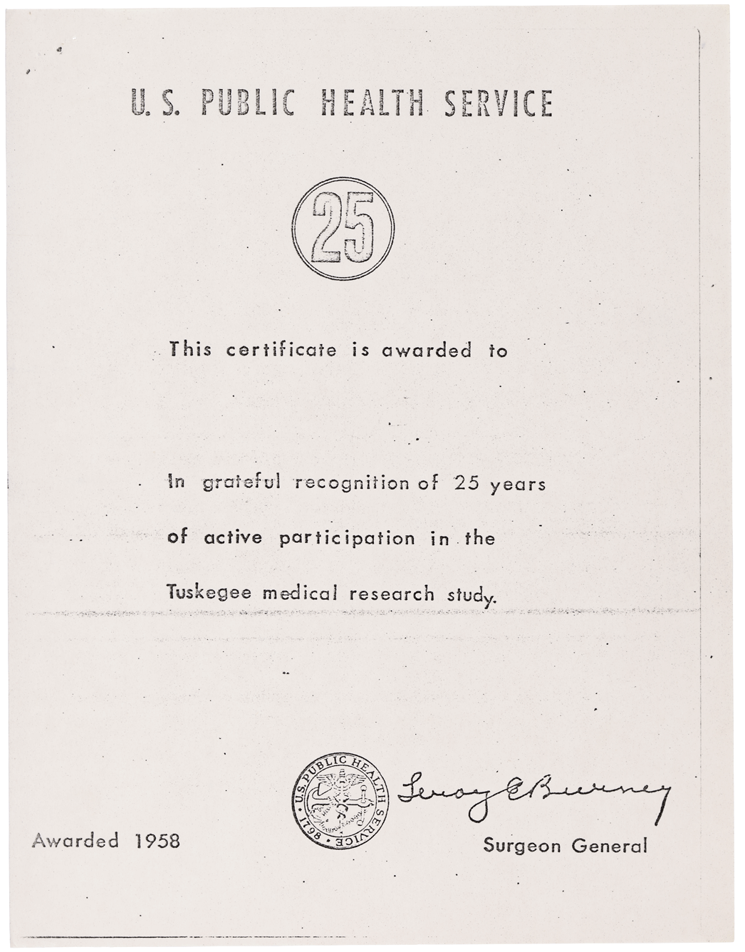 Thank you letter sent by the U.S. government to test subjects of the Tuskegee Syphilis Study